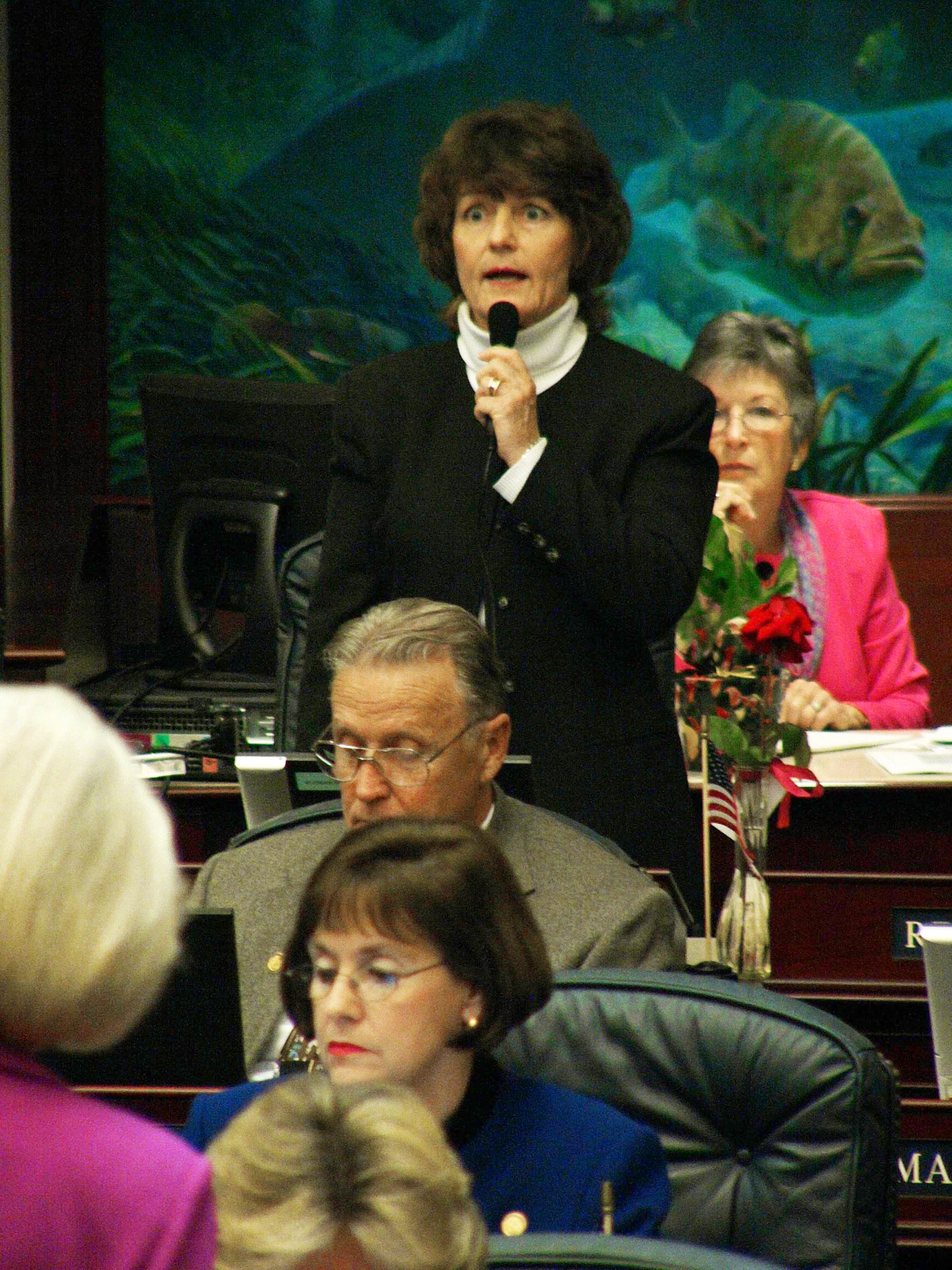 Rep. Suzanne Kosmos, D-New Smyrna Beach, comments on the Florida KidCare Program bill CS/SB 2000 under consideration March 5, 2004.